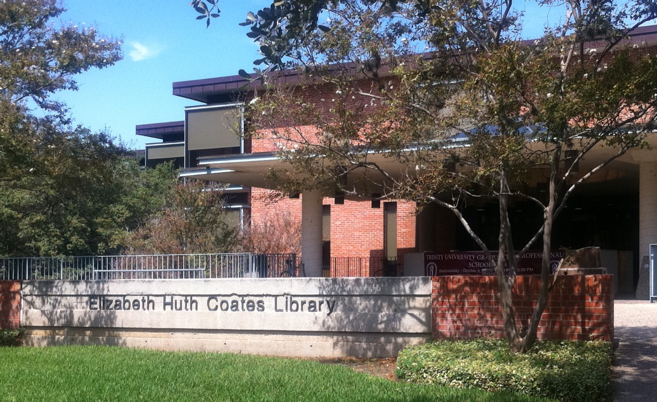 Coates Library, Trinity University